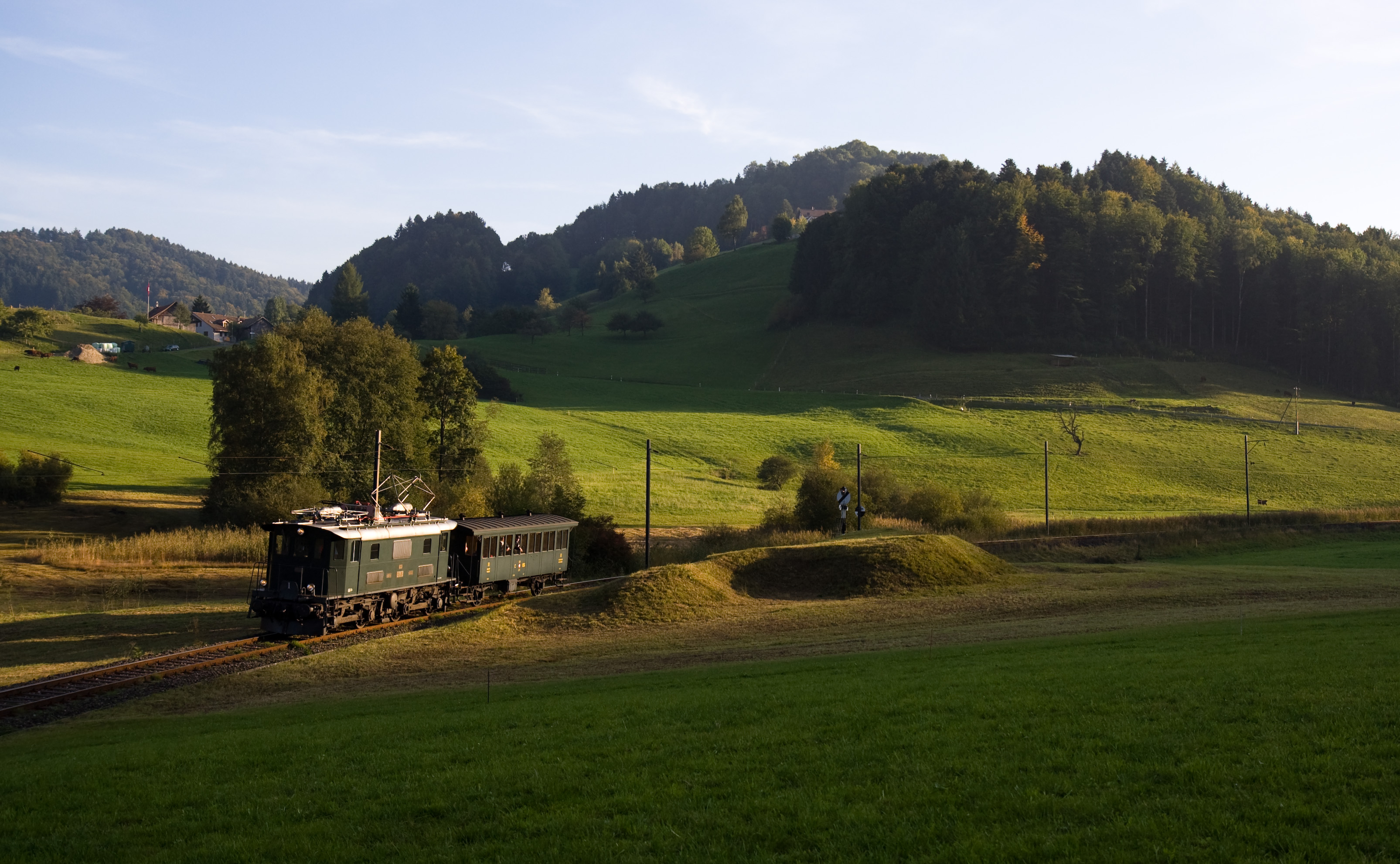 Former Bodensee-Toggenburg-Bahn Be 4/4 no. 15 electric locomotive, now in DVZO possession, between Bäretswil and Neutal